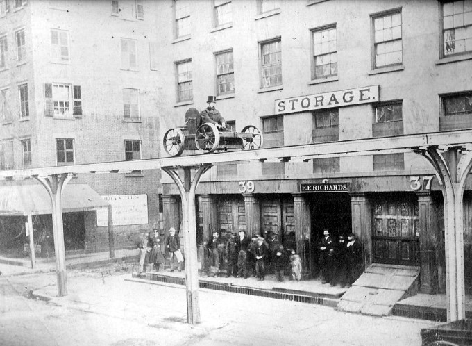 Charles Thompson Harvey making a southbound test run along the Greenwich Street portion of his cable-driven West Side and Yonkers Patented Railway. This image was taken in December 1867 at 39 Greenwich Street, at the corner of Morris Street.